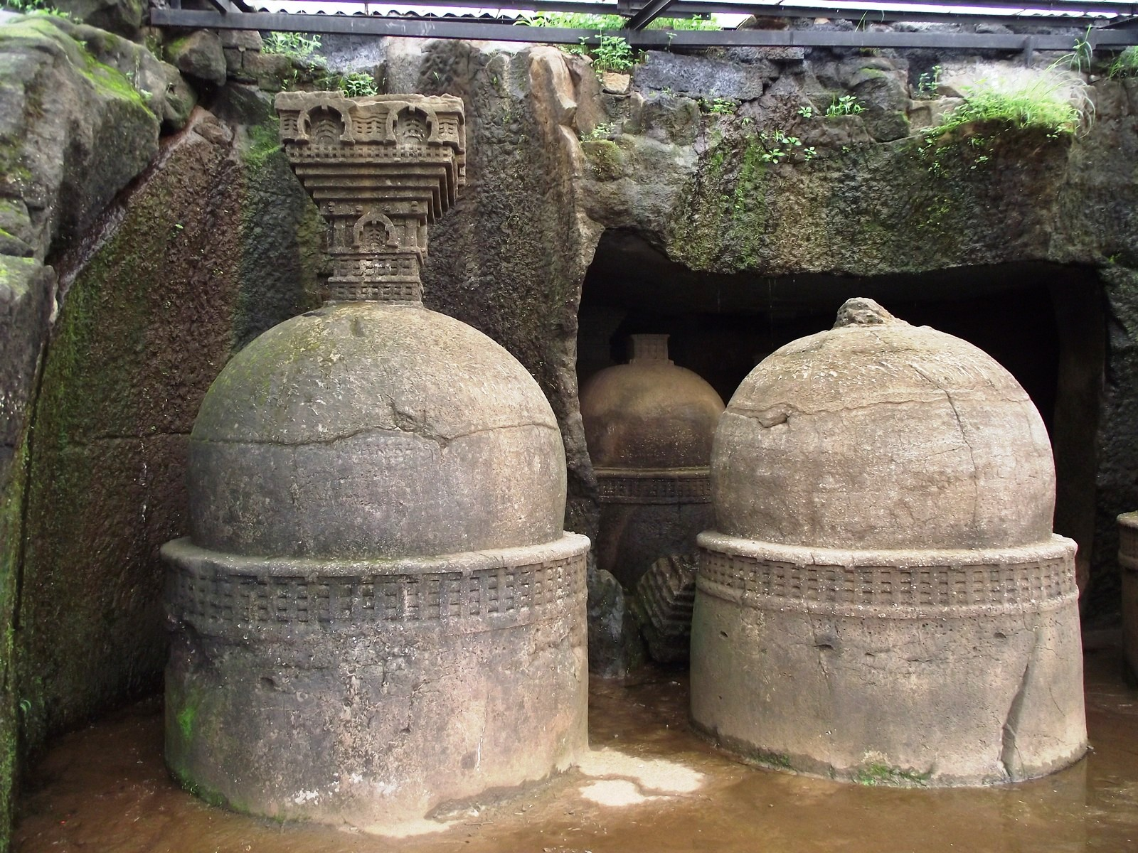 Cave temple and Inscription